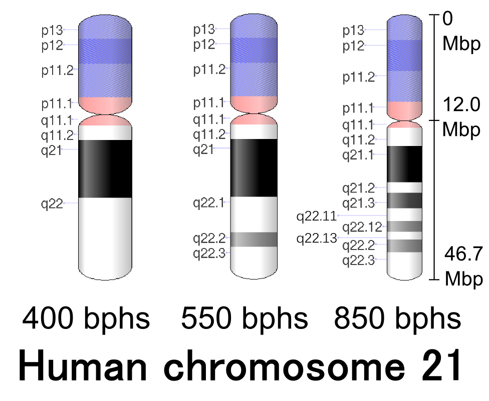 Ideograms of G-band pattern of human chromosome 21 in three different resolutions (400, 550 and 850 bphs, bands per haploid set). Different resolutions are corresponding to different band patterns observed through mitotic phase (about relation between banding resolution and mitotic phase, see, for example, Fig.3 in W Sethakulvichaia (2012)). Legend: Black and gray is Giemsa positive. Red is centromere. Light blue is variable region. Dark blue is stalk. At the right, centromere position (center) and q arm terminus position (bottom), counted from p arm terminus (top) in Mbp (mega base pairs), are labeled. Physical length (sometimes referred as "absolute length") is not labeled. Because physical length of chromosomes vary while mitosis. (typical human chromosome physical length is in the order of from several micrometers to ten and several micrometers. See, for example, Category:Human chromosome images with scale bars.).